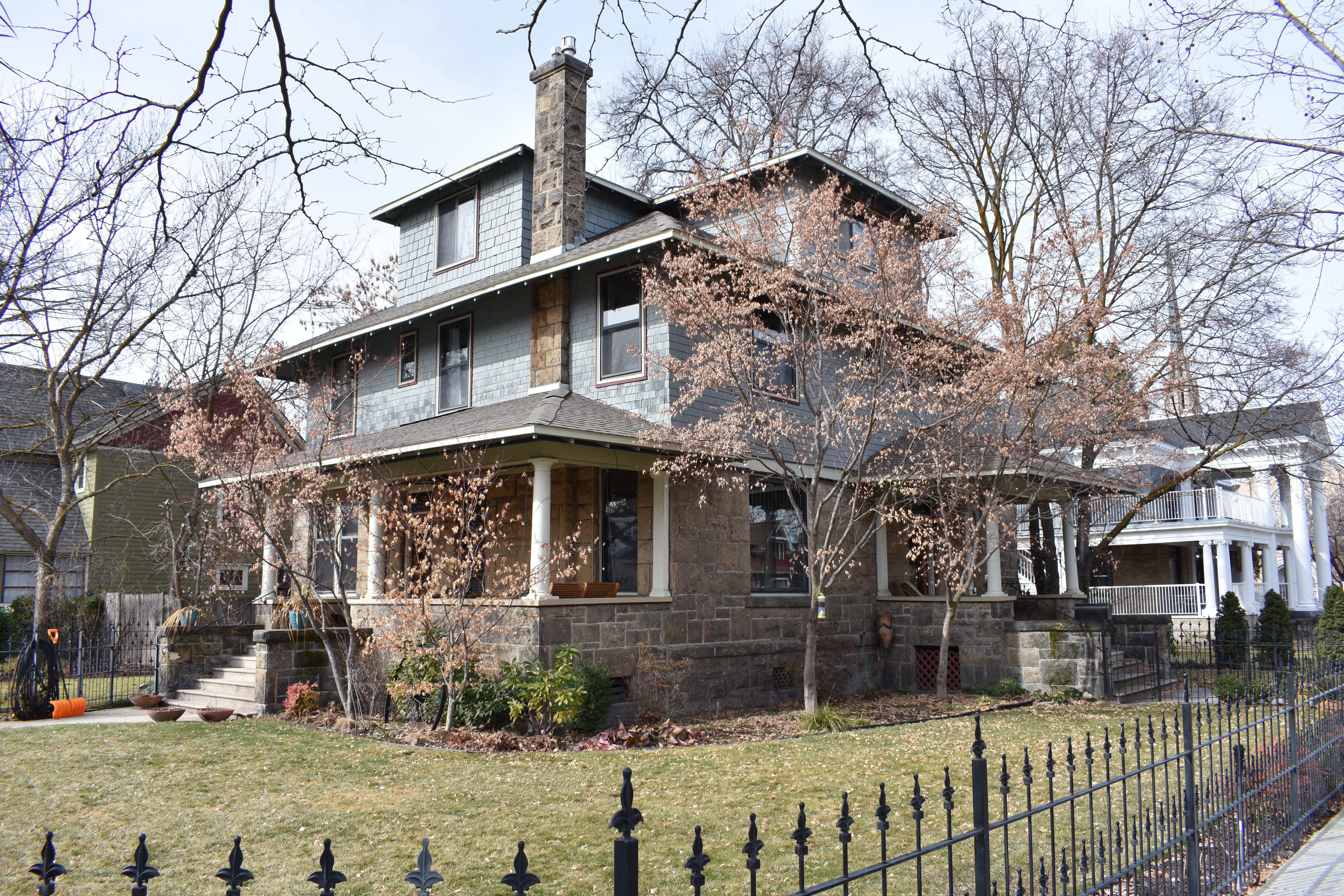 The M.J. Marks House in Boise, Idaho, was designed by Tourtellotte & Hummel and is listed on the National Register of Historic Places. The house also is part of the Fort Street Historic District.